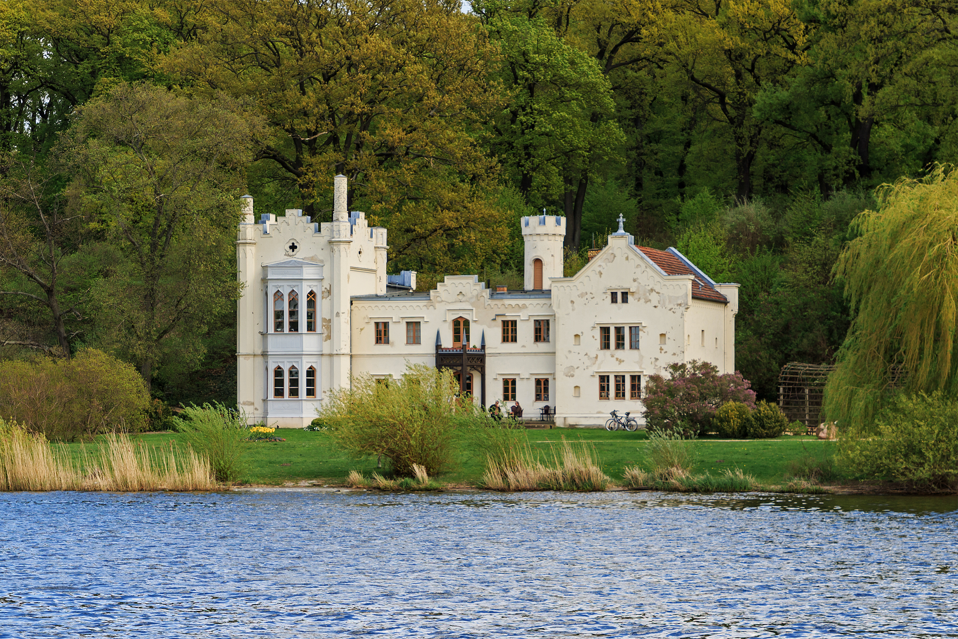 View of Park Babelsberg from Potsdam Water Taxi